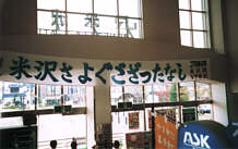 Yonezawa Dialect (Okitamaben), Japan